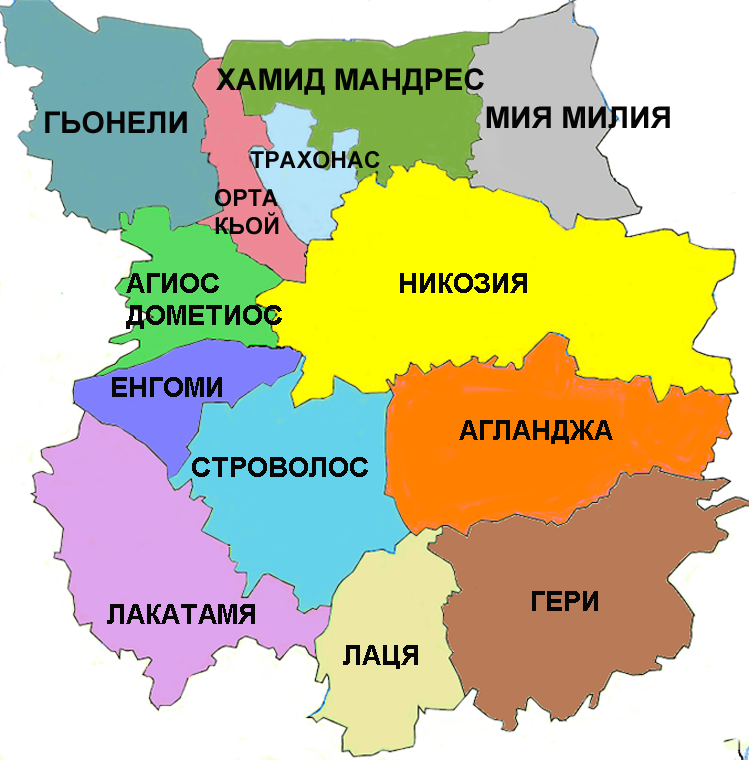 Nicosia local government units